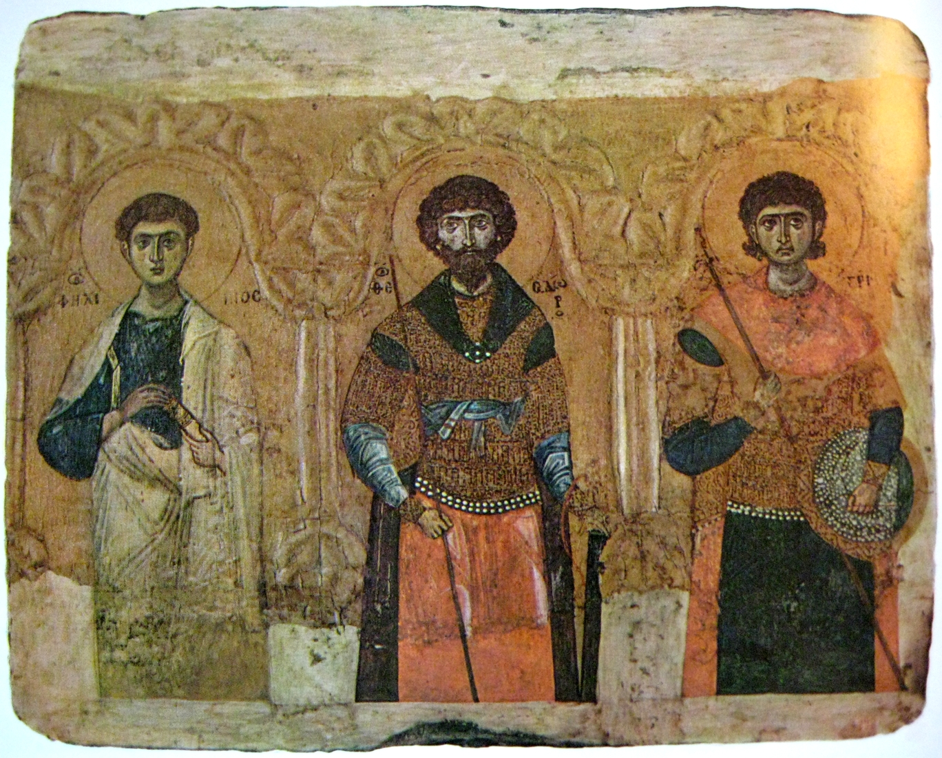 Icon of the apostle Philip and ss Theodore and Demetrius. Late 11-early 12 c. Hermitage